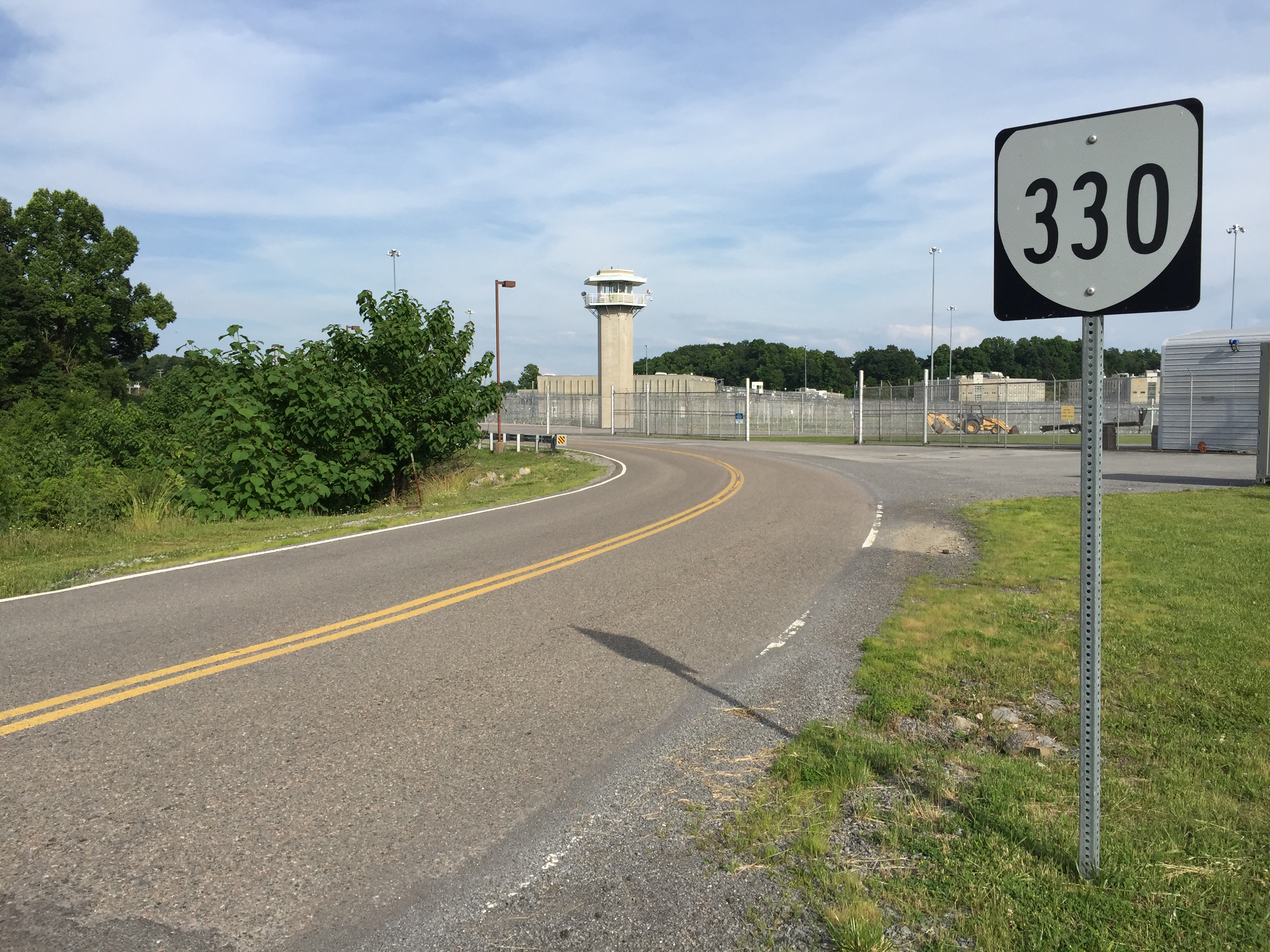 View east along Virginia State Route 330 (Kennel Gap Road) at the Keen Mountain Correctional Center in Buchanan County, Virginia